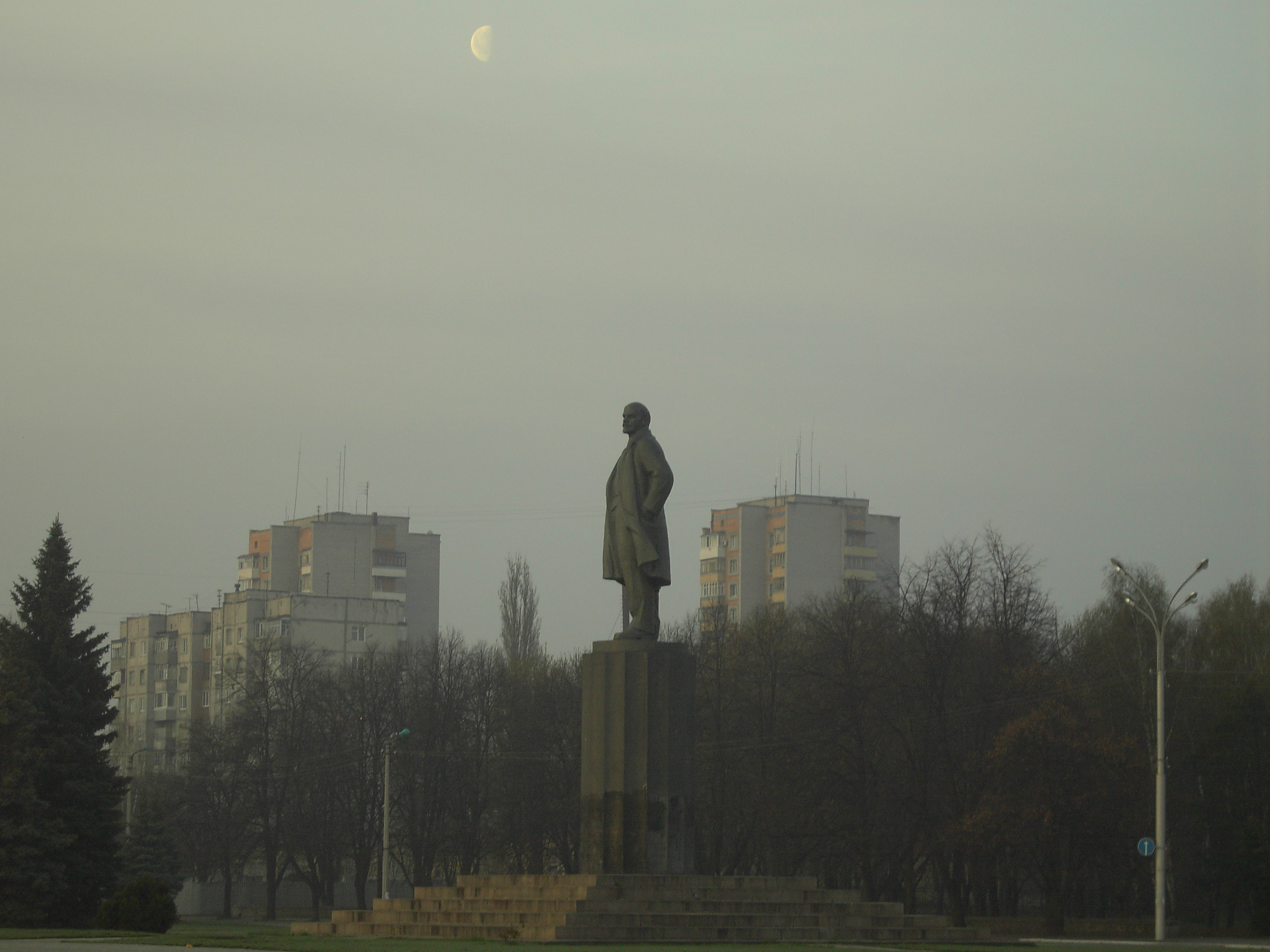 Krementchuk Lenin at night (demounted after Euromaidan - 2014).